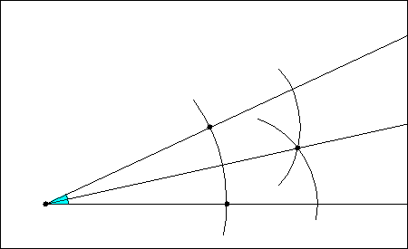 Bisection of an angle